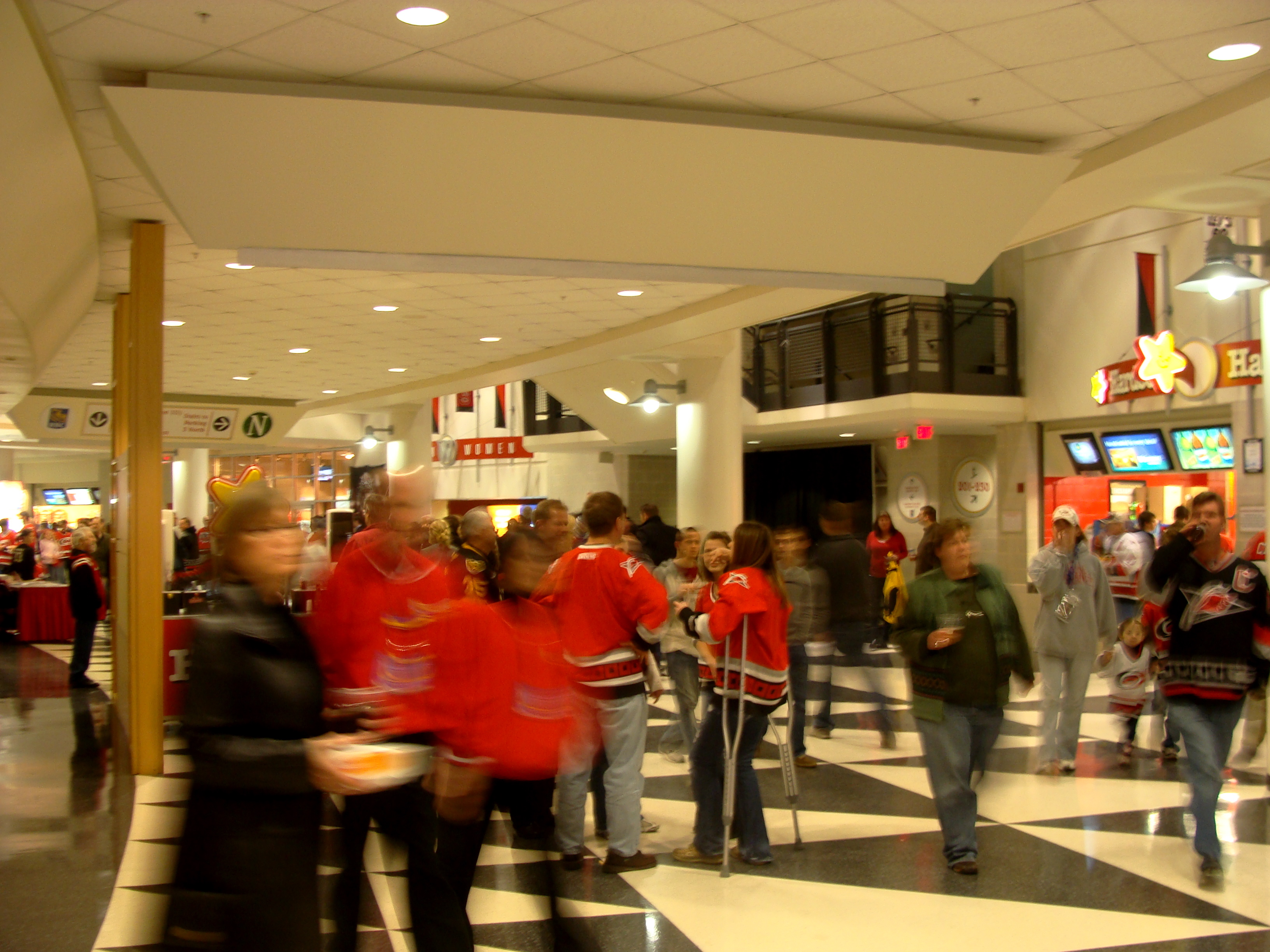 A picture of one of the main concourses inside the RBC Center during a Carolina Hurricanes game.